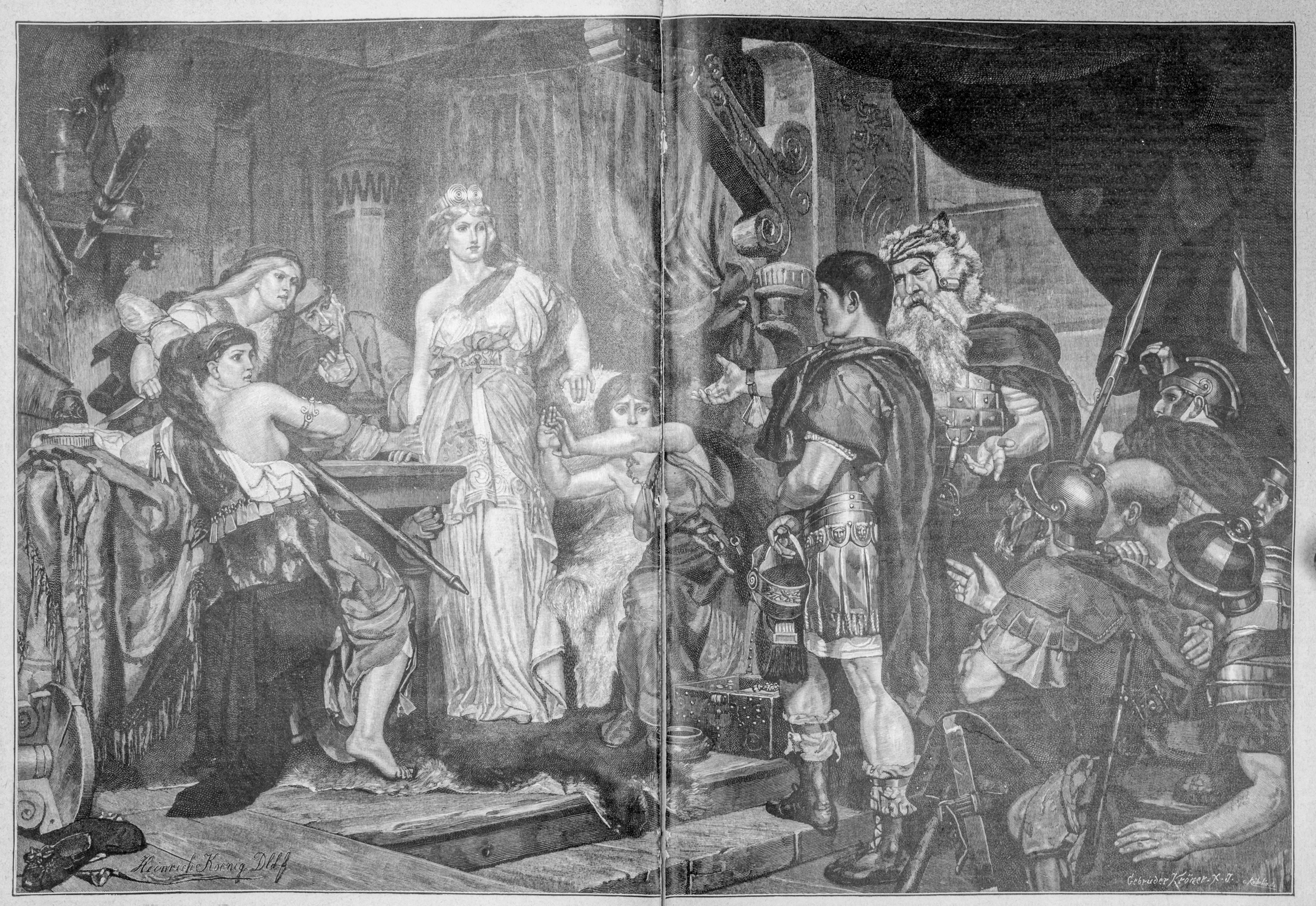 caption: "Gefangennahme Thusneldas durch Germanicus. Von Heinrich König. Photographie im Verlage von Fr. Hanfstängl in München."